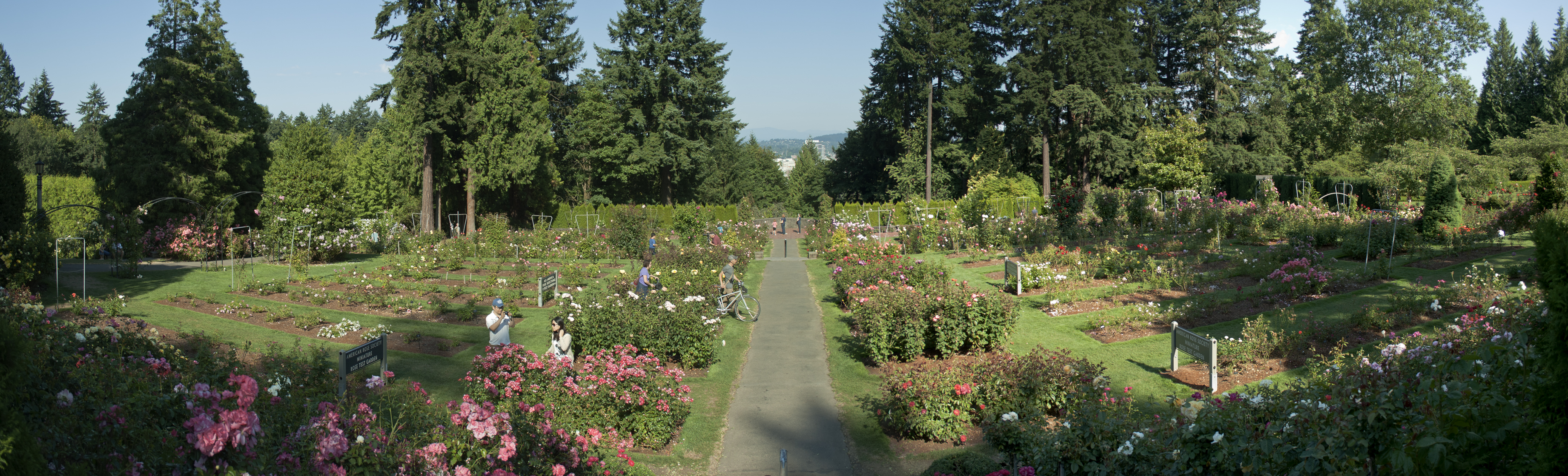 A panorama of the International Rose Test Garden in Portland, Oregon, USA.